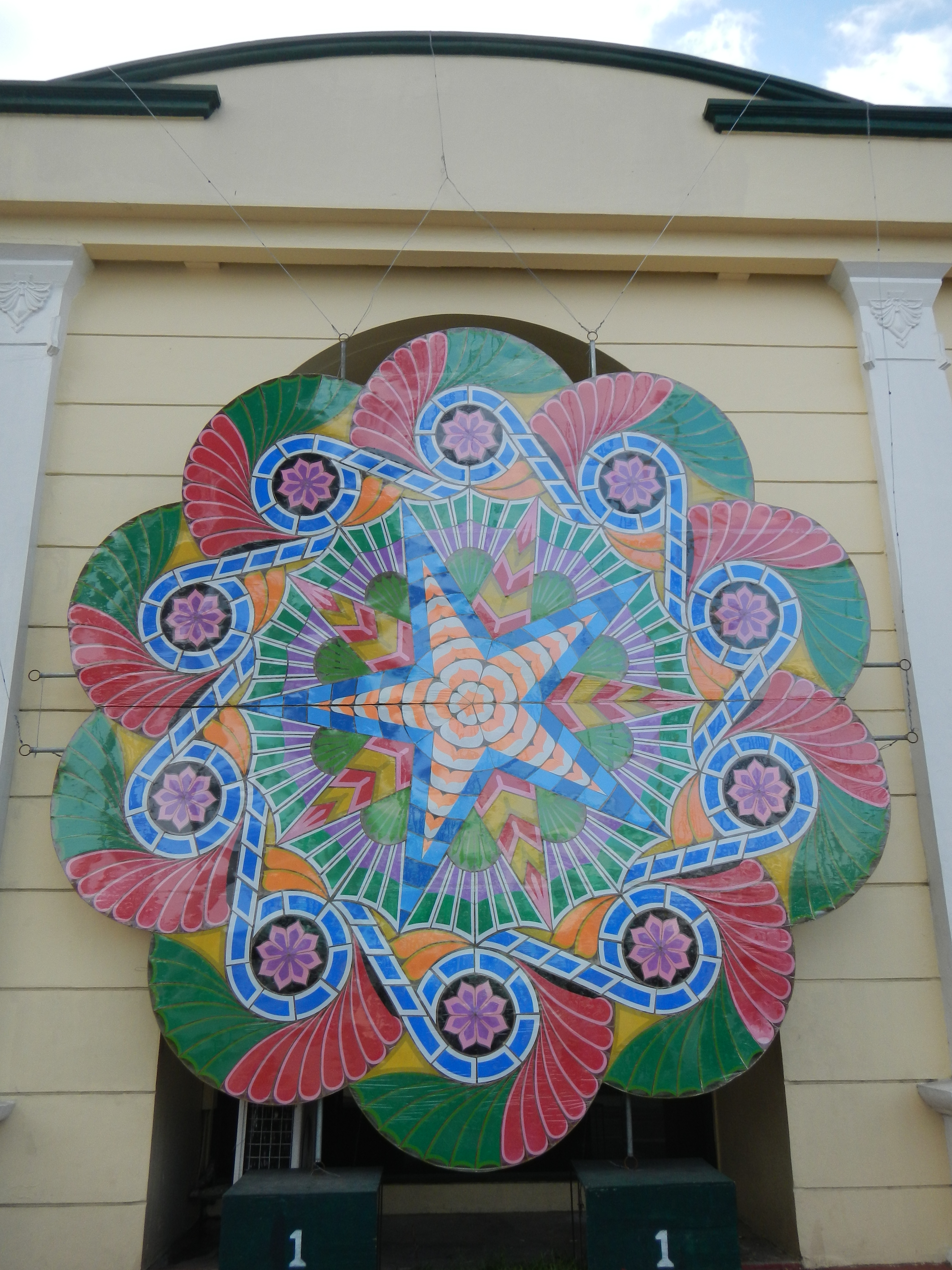 Upload Wizard photos of Marikina City [1] Hall Complex Compound -- Shoe Capital of the Philippines - the interior 1st and 2nd Floor, Mayor's and other City Offices, busts memorials of former Mayors, 2 largest shoes on Plaza, Park in front of the City Hall facade, the rear facade of the Hall.